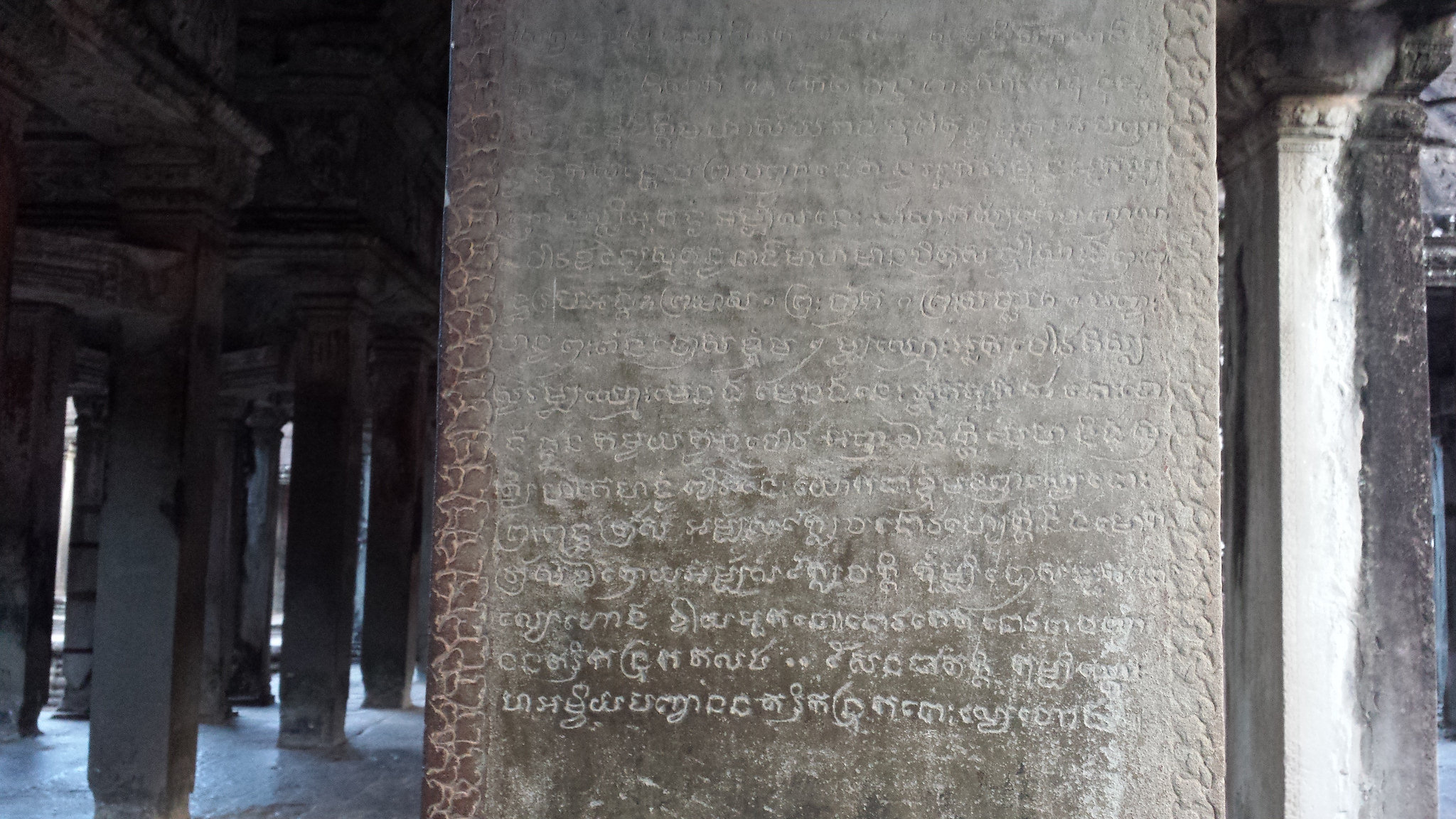 Khmer inscriptions within the Angkor Wat temple building.